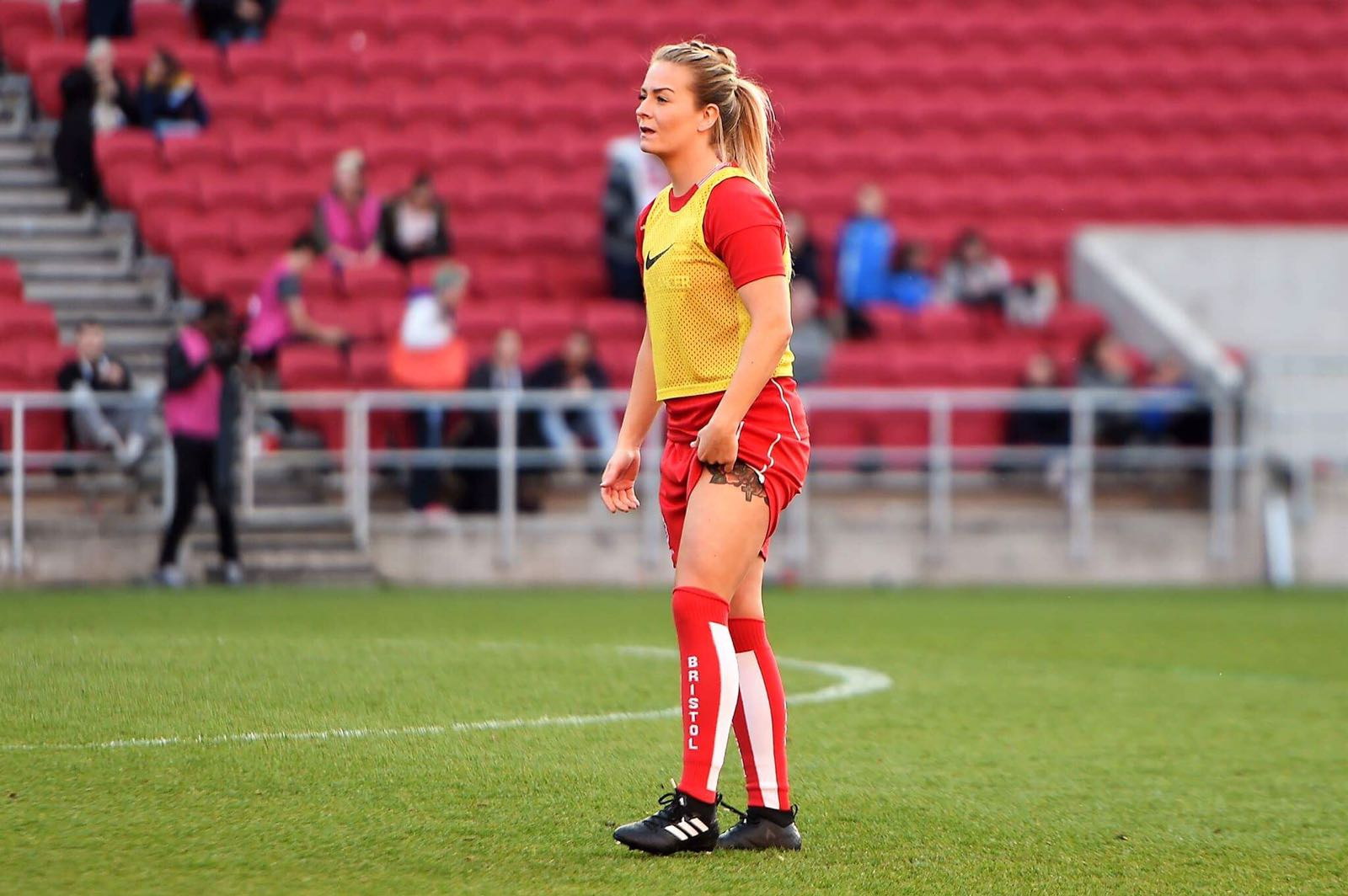 Preparing for the Bristol City vs. Reading match at Ashton Gate